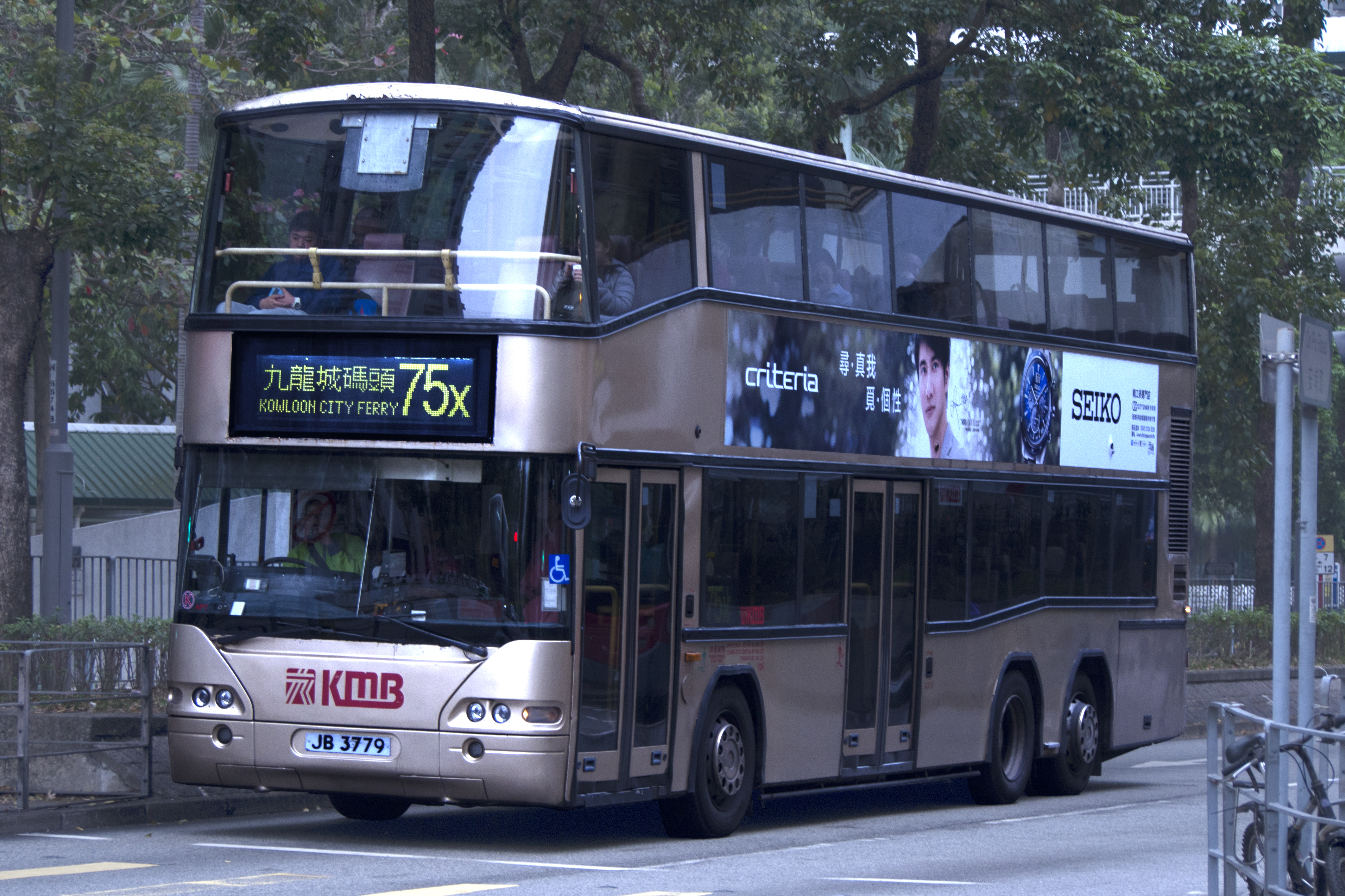 KMB's Neoplan Centroliner